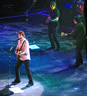 John Fogerty performing in Globen, Stockholm